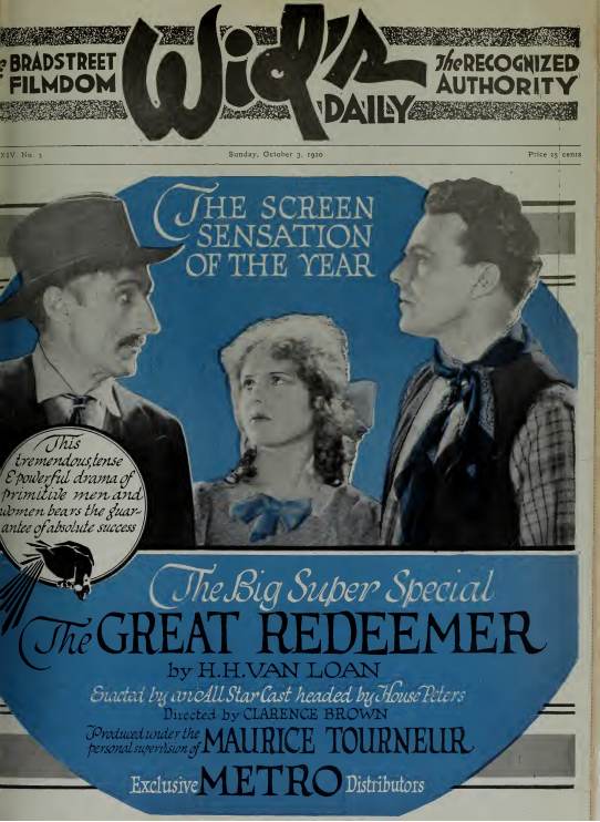 Advertisement for the American western film The Great Redeemer (1920) with Jack McDonald, Marjorie Daw, and House Peters, directed by Clarence Brown.